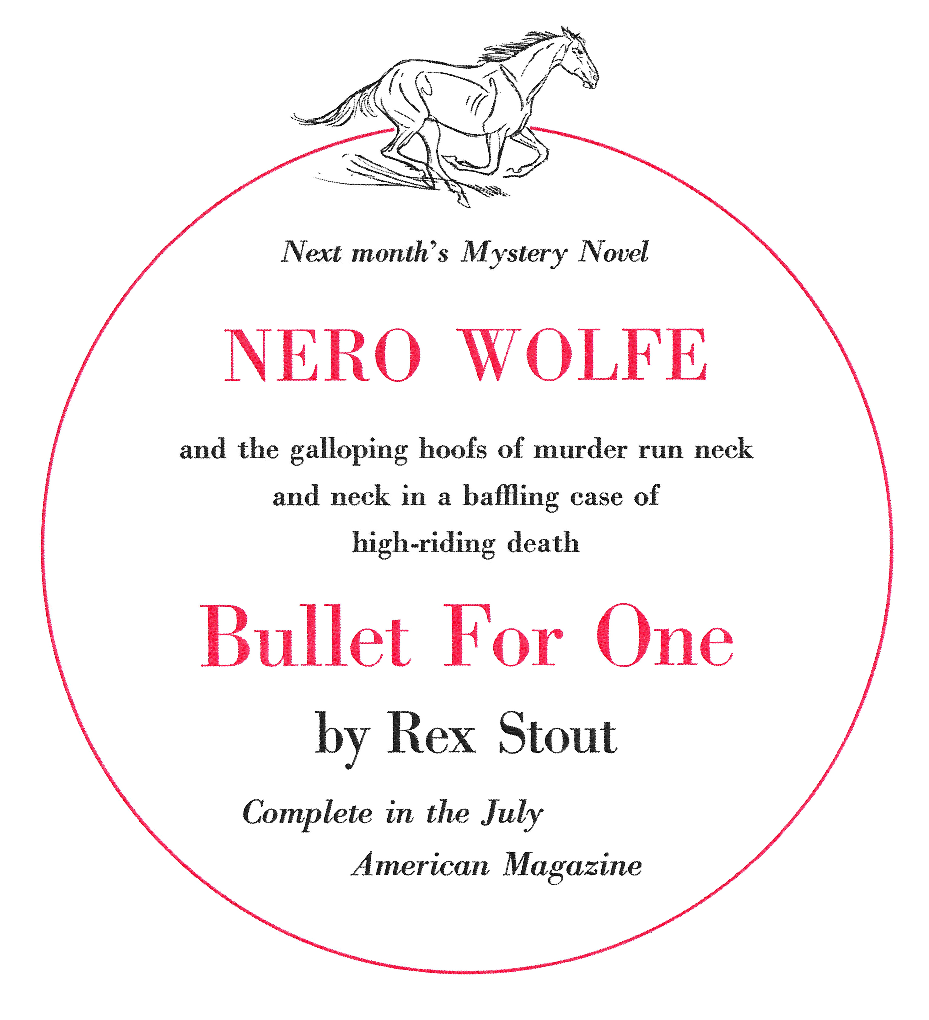 Promotional teaser for The American Magazine printing of "Bullet for One", a Nero Wolfe story by Rex Stout